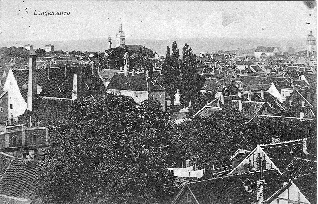 Postcard, undated ( ca.1914 ). Title: "Langensalza"